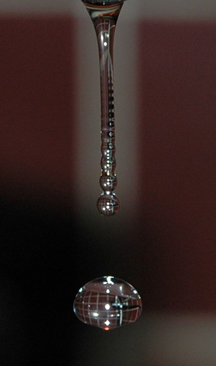 A water drop. Taken with Nikon D70 camera at 1/500s and with a synchronized flash.